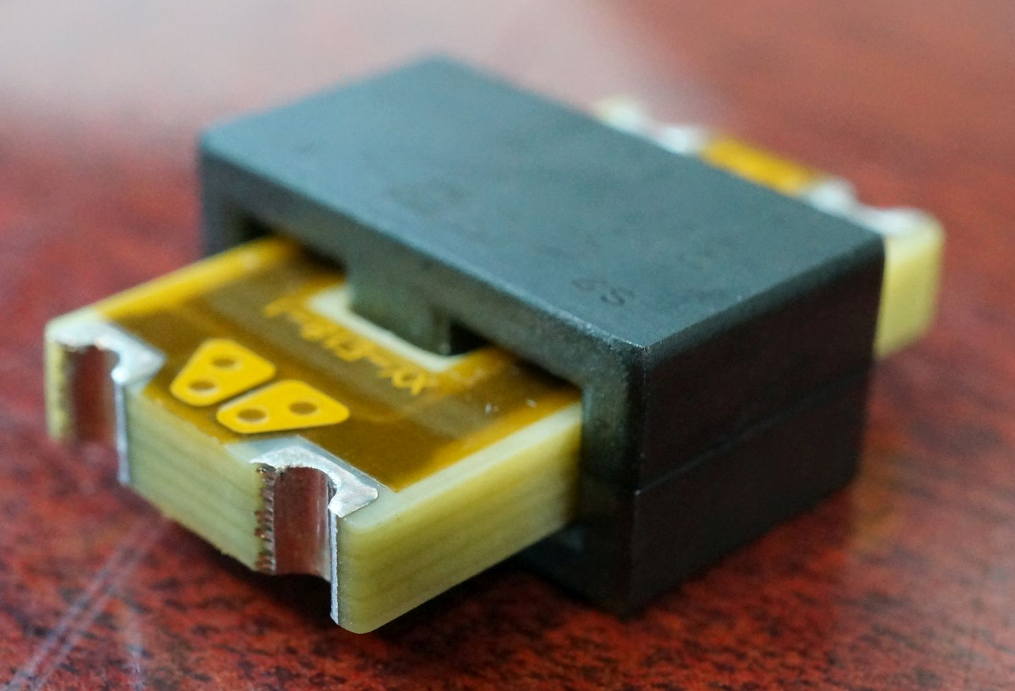 Custom planar transformer. Side View showing the PCB layers.